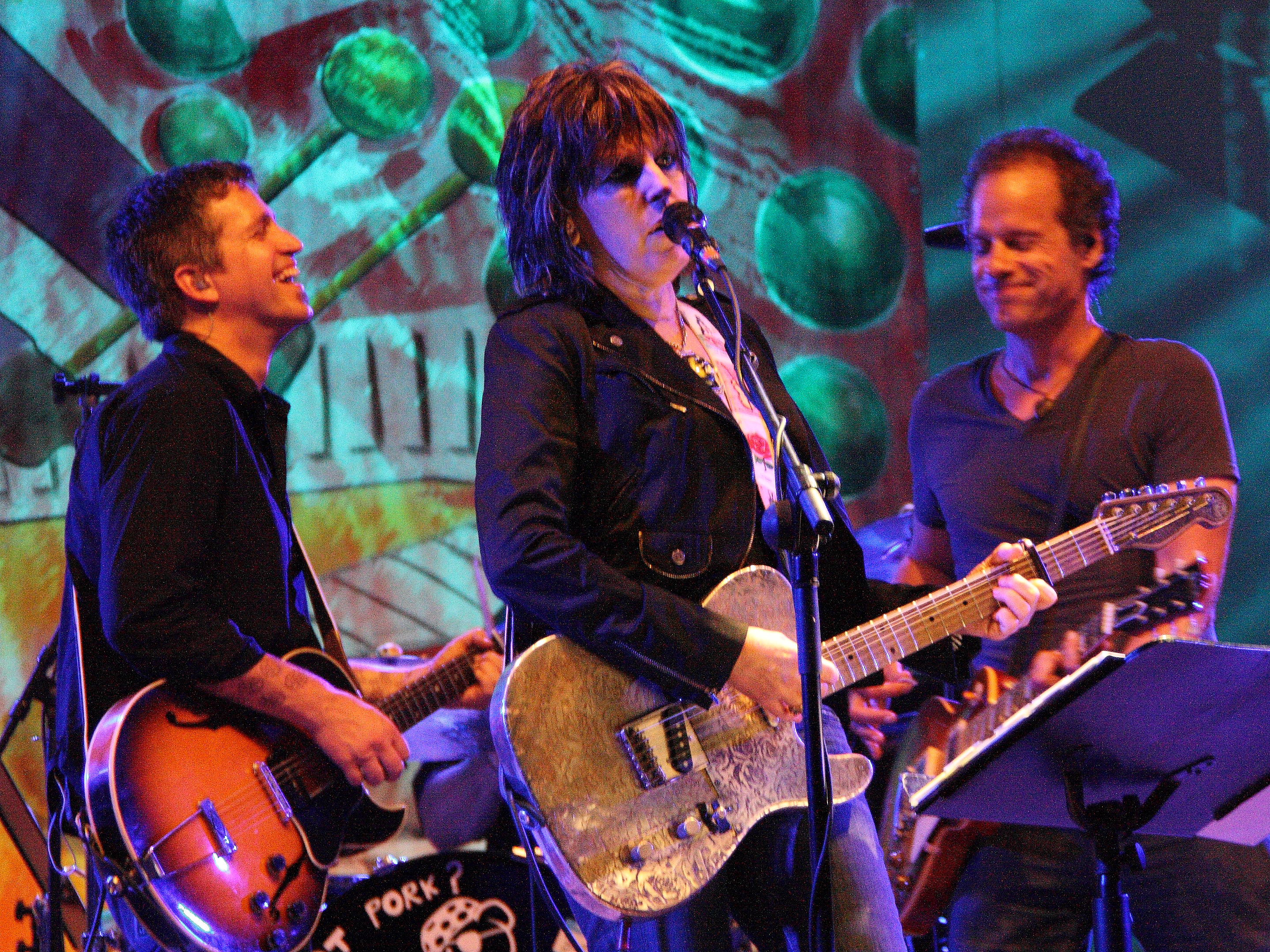 Lucinda Williams at TFF-Festival, Rudolstadt, Germany